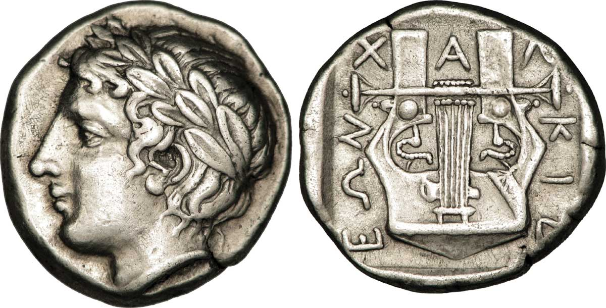 Tétradrachme de la ligue chalcidique à l'effigie d'Apollon et de sa lyre Date : 420-392 AC.